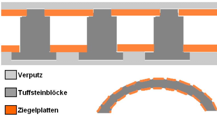 Schematic representation of the vault construction of the Roman baths of Chesters (Cilurnum), Hadrian's Wall, GB.